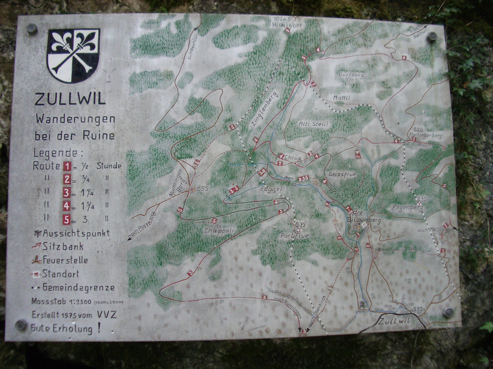 Zullwil SO, Switzerland